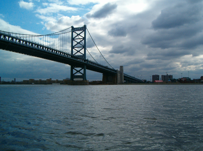 Benjamin Franklin Bridge Picture taken from a DUKW tour boat in April 2006